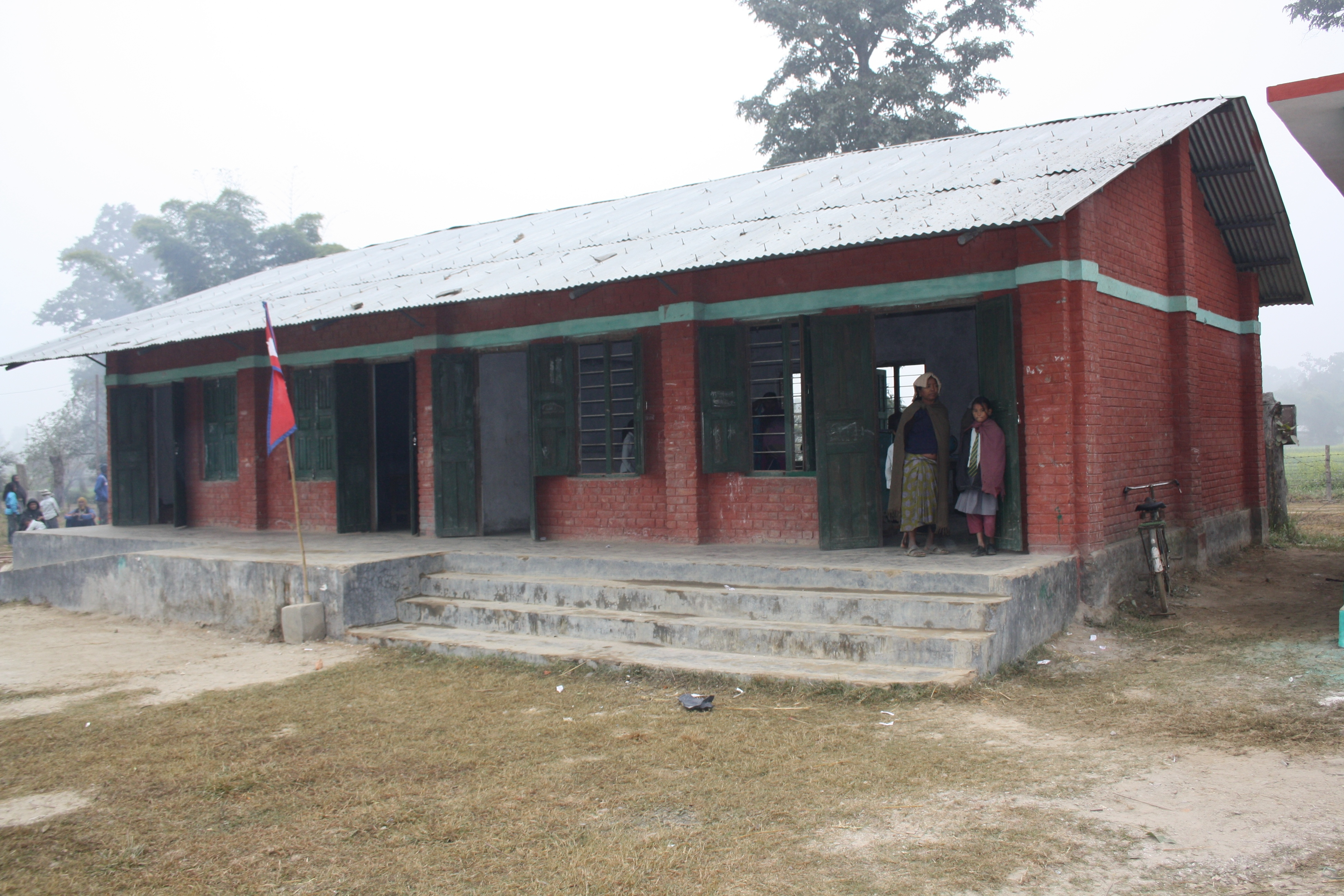 When an elephant destroyed their ramshackle school building, more than 100 children at the Manakamana Primary School in Kailali, Nepal, were left without a classroom. But thanks to support from UK aid from the Department for International Development, these students are now able to continue their education in a new building built to withstand shocks more powerful than elephants. The Community Support Programme (CSP) is helping rural communities in Nepal lift themselves out of poverty. In its tenth year now, the CSP is helping people living in remotes areas of Nepal to grow and sell their crops to feed their families, send their children to school and pay for healthcare. The Community Support Programme has improved school facilities for 2,800 communities – benefitting 600,000 families. More than 1,000 other community projects are being supported to benefit 116,000 households. To find out more on how we’re helping rebuild schools through the CSP, vist: Picture: Robert Stansfield/DFID